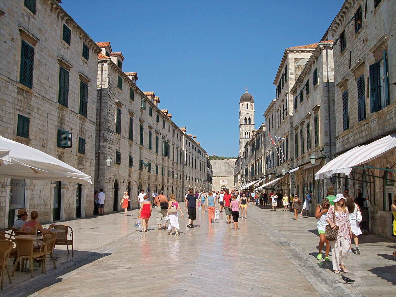 Main street of Dubrovnik (Croatia)